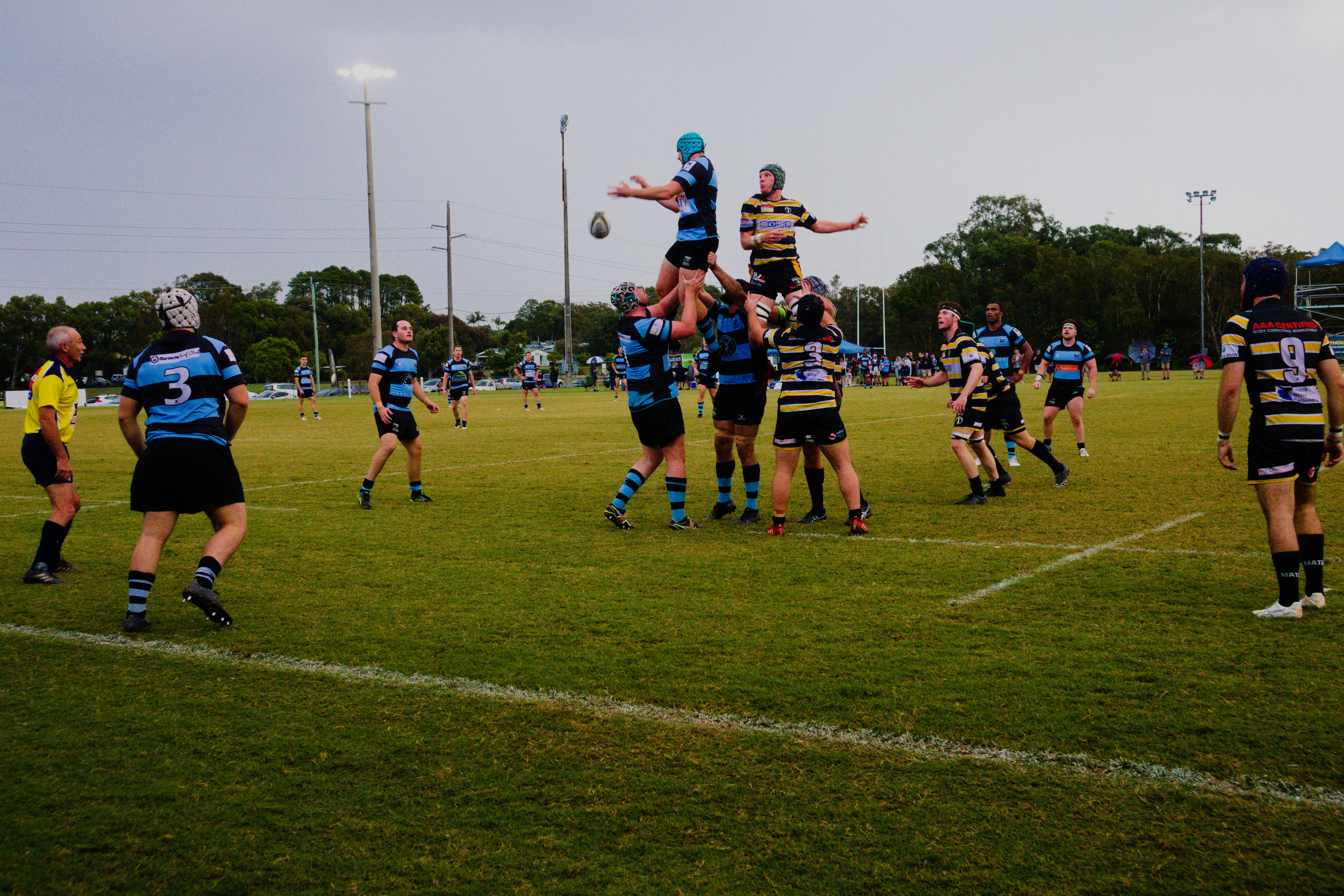 Caloundra played their Round 3 Sunshine Coast Rugby Union A grade game at home against Maroochydore. It was the first game they live streamed to their Facebook page.